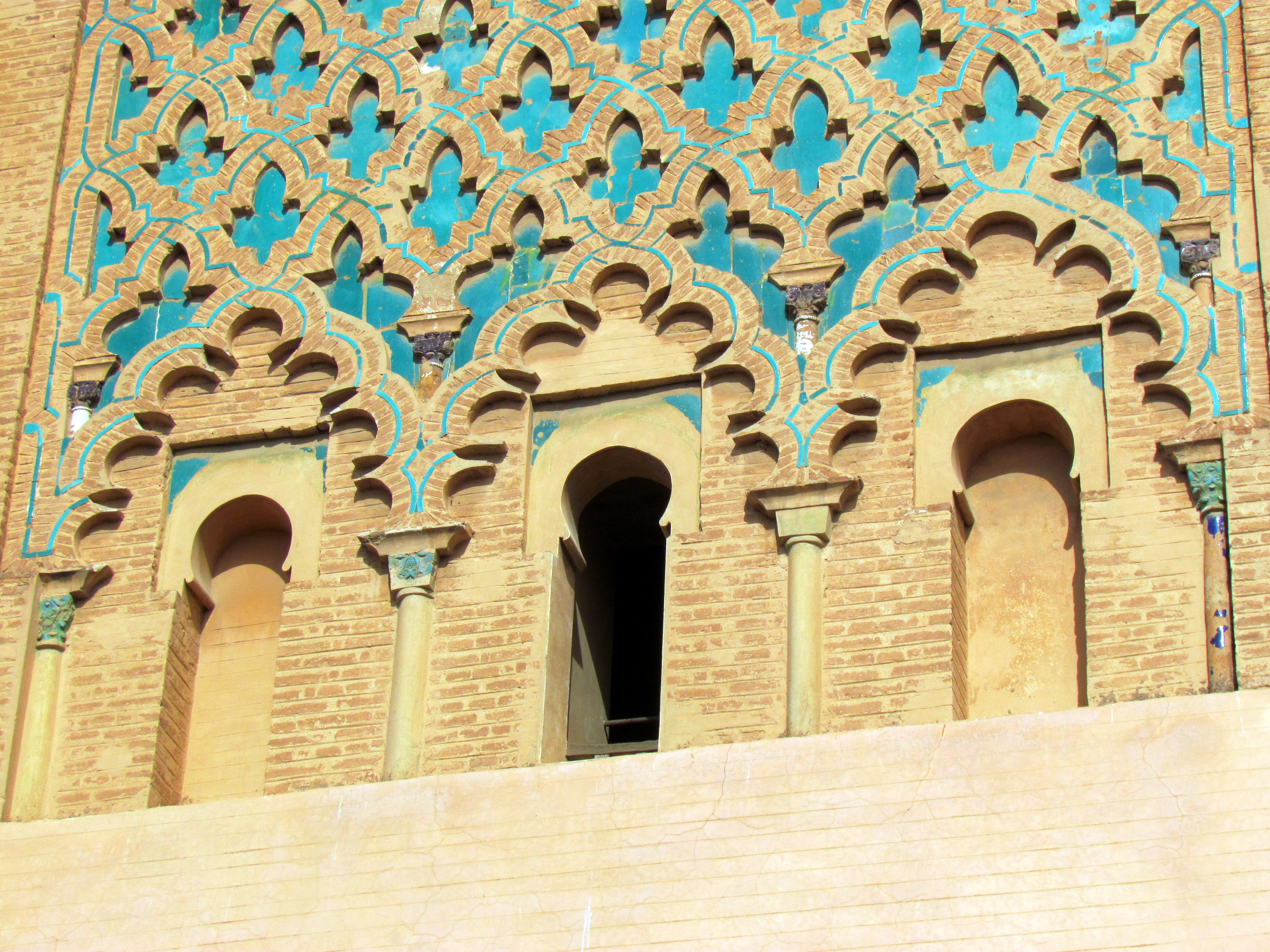 Close-up of minaret of Kasbah mosque